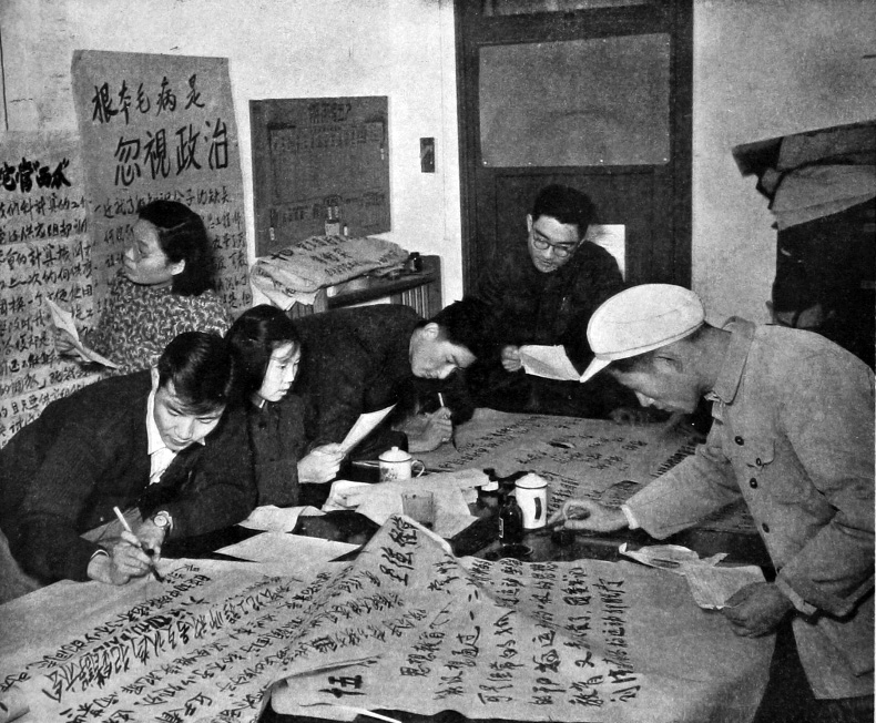 Writing propaganda posters.